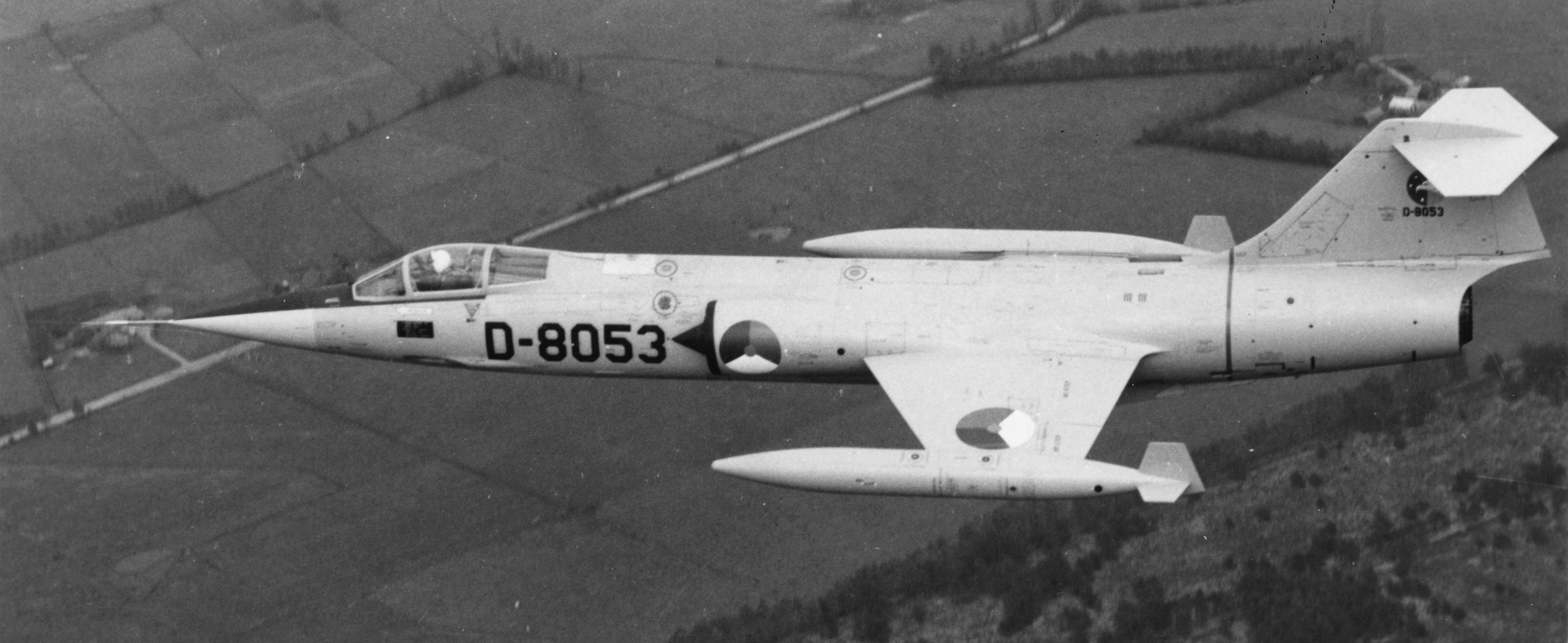 F-104G Starfighter of 306 Sqn in flight, buzz number D-8053, left side view.